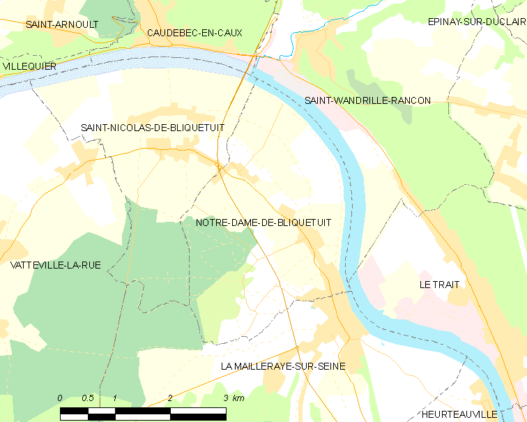 Map of French municipality Notre-Dame-de-Bliquetuit